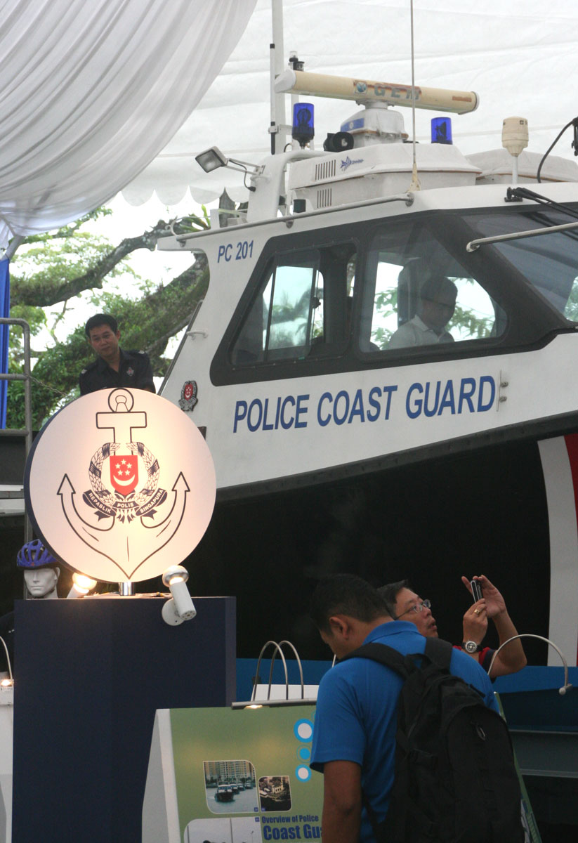 Description: Booth of the Police Coast Guard at the Police Carnival 2006. Source: Self-made Location: Old Police Academy, Singapore Date: 10/06/2006 17:25 Photographer/Painter: Huaiwei